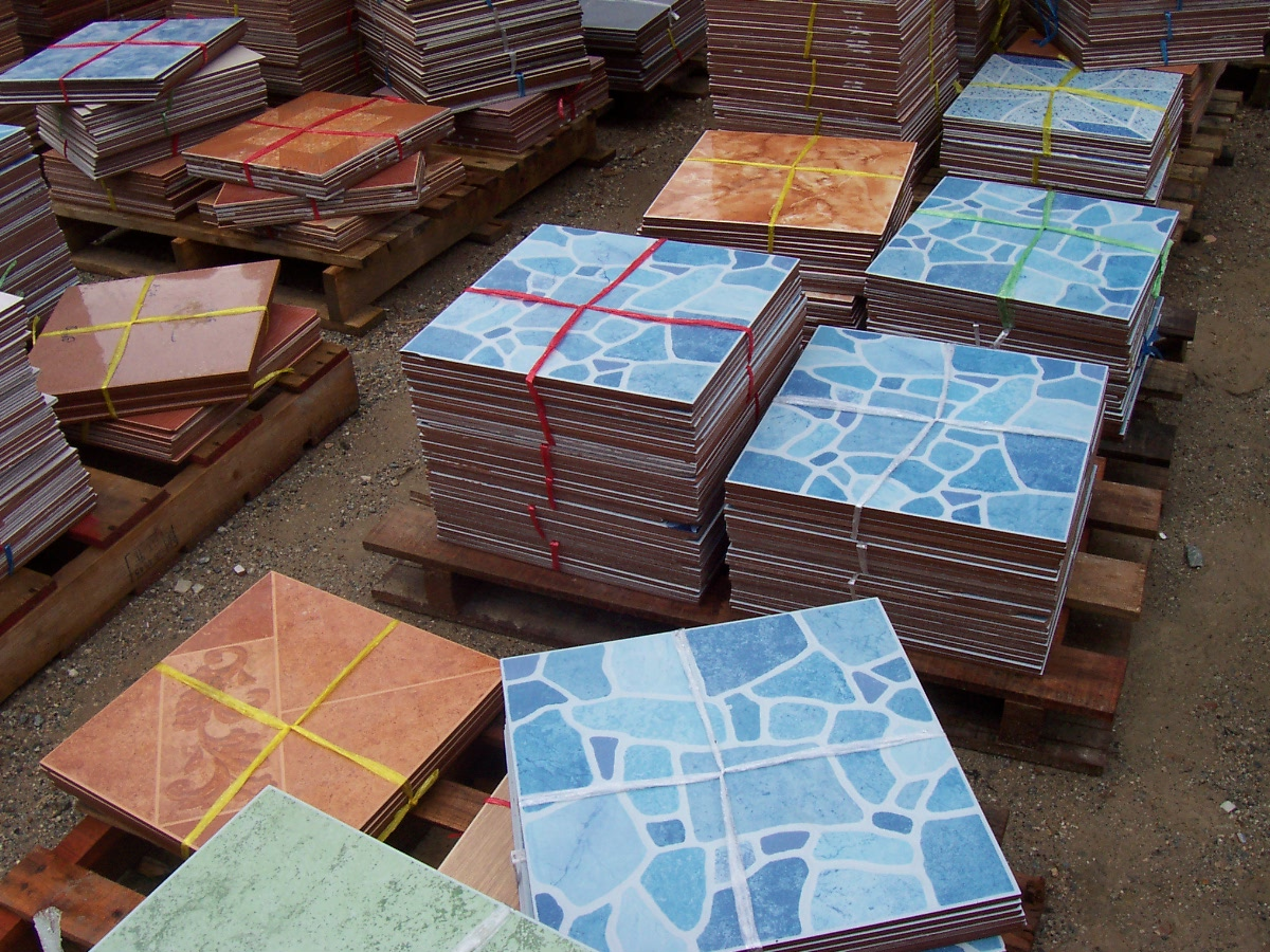 tiles (กระเบื้อง) - Tak, Thailand